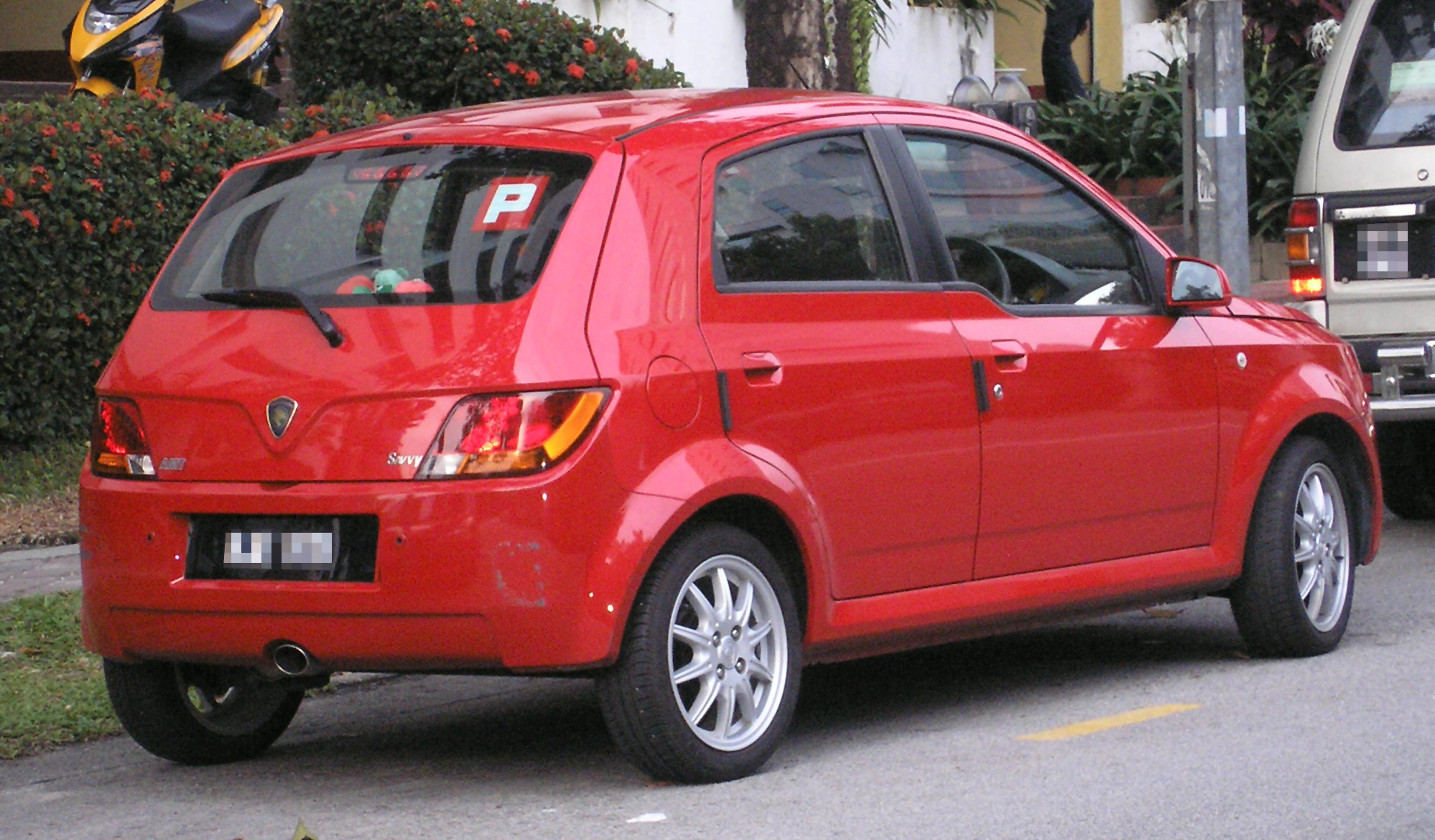 Rear-side shot of a Proton Savvy, in Kuala Lumpur, Malaysia.